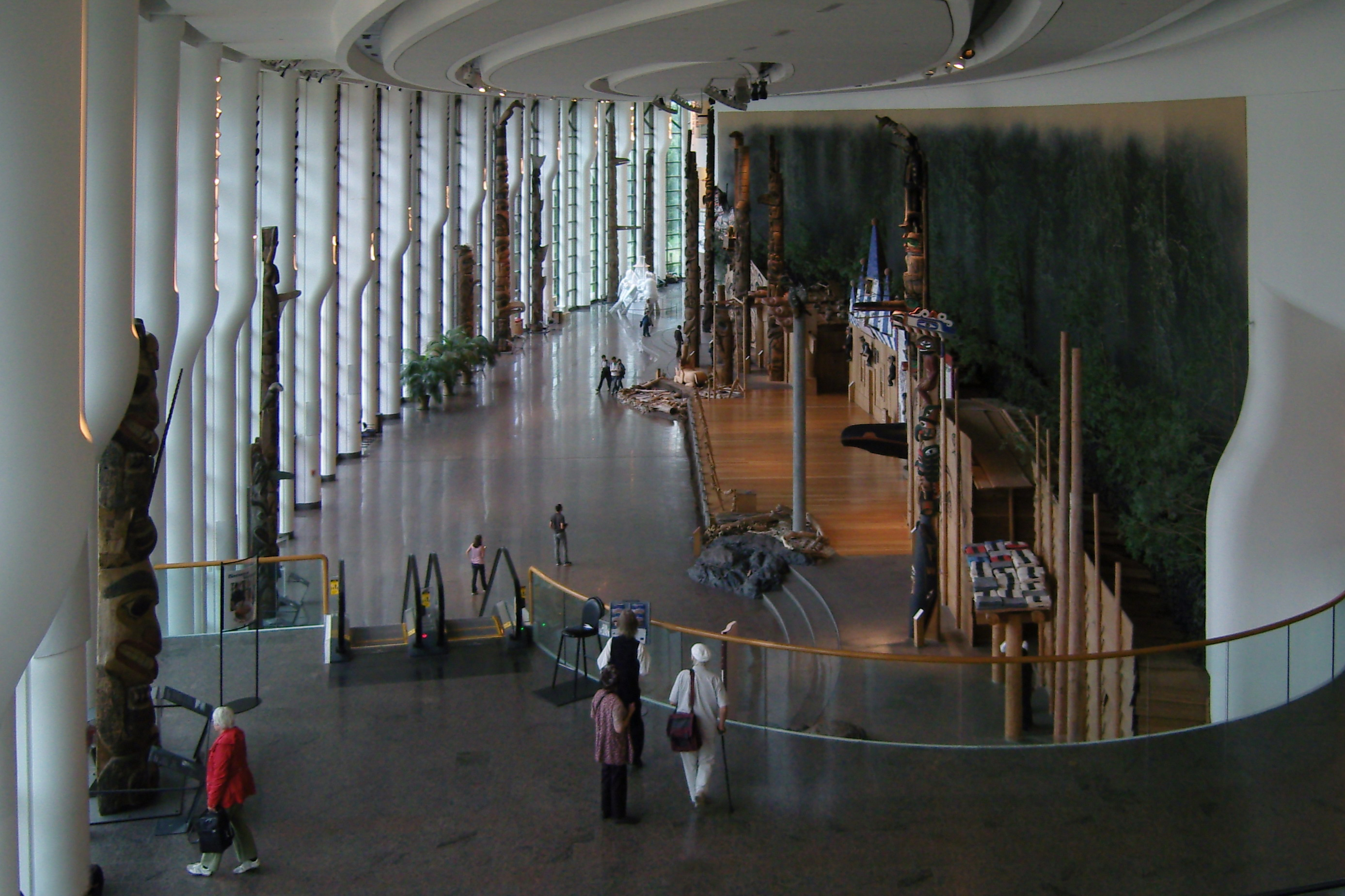 Great Hall in the Canadian Museum of Civilization, Ottawa